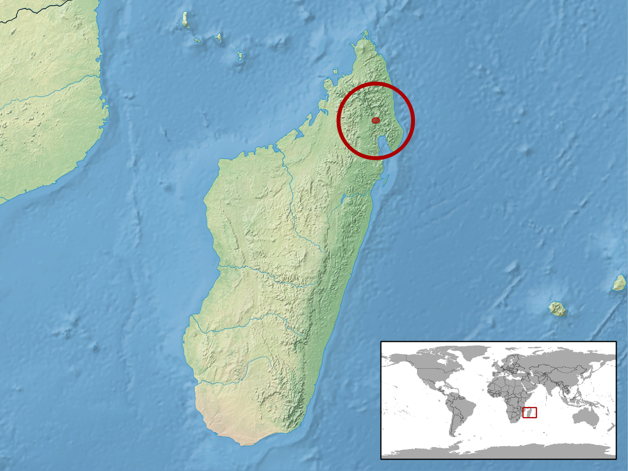 geographic distribution of Calumma vatosoa